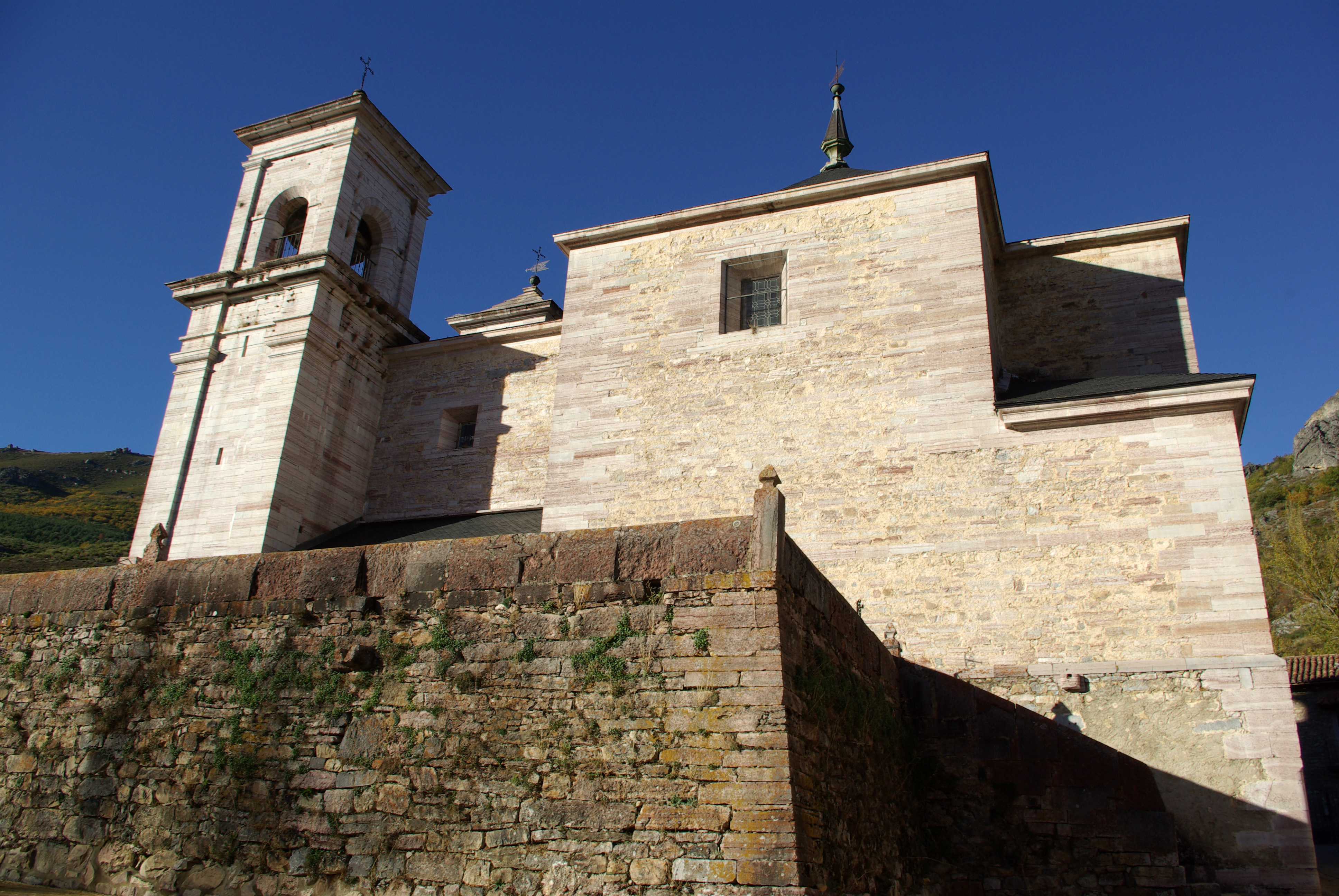 Lois parish church, Crémenes (León, Spain).